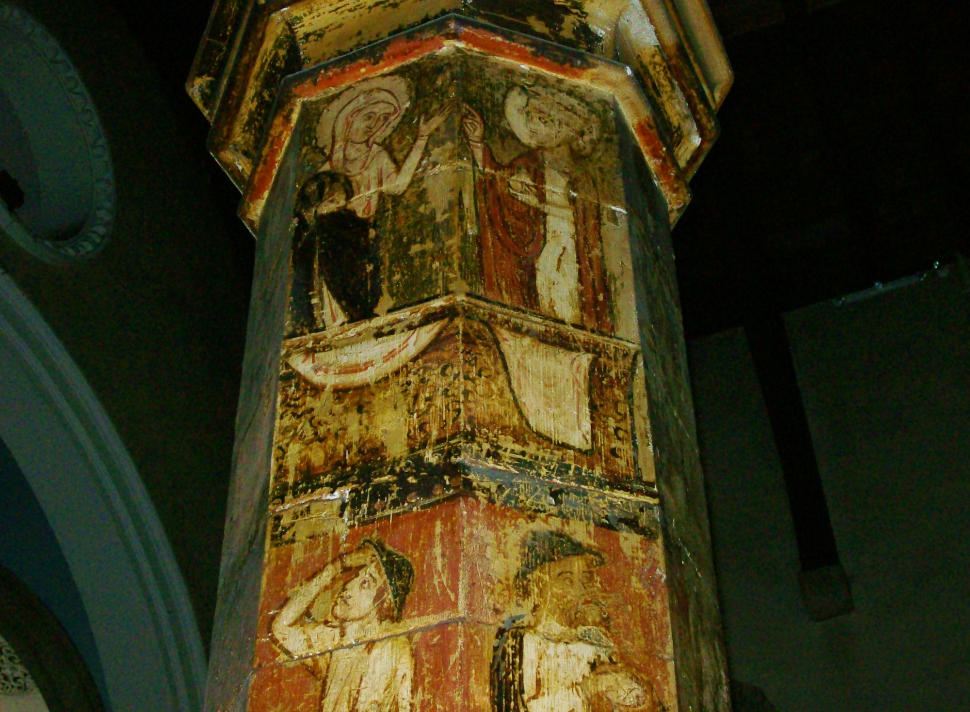 Painted pillar, St Mary of Charity, Faversham